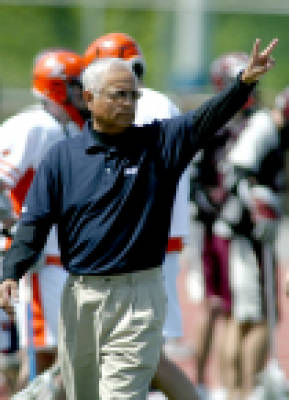 Sid Jamieson